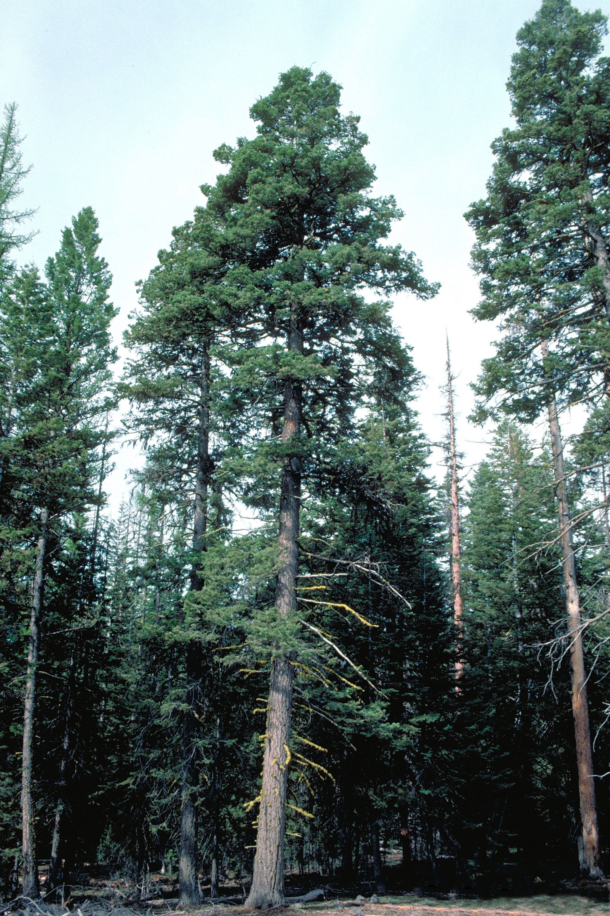 Abies concolor mature tree